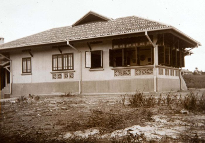 House, Dabo